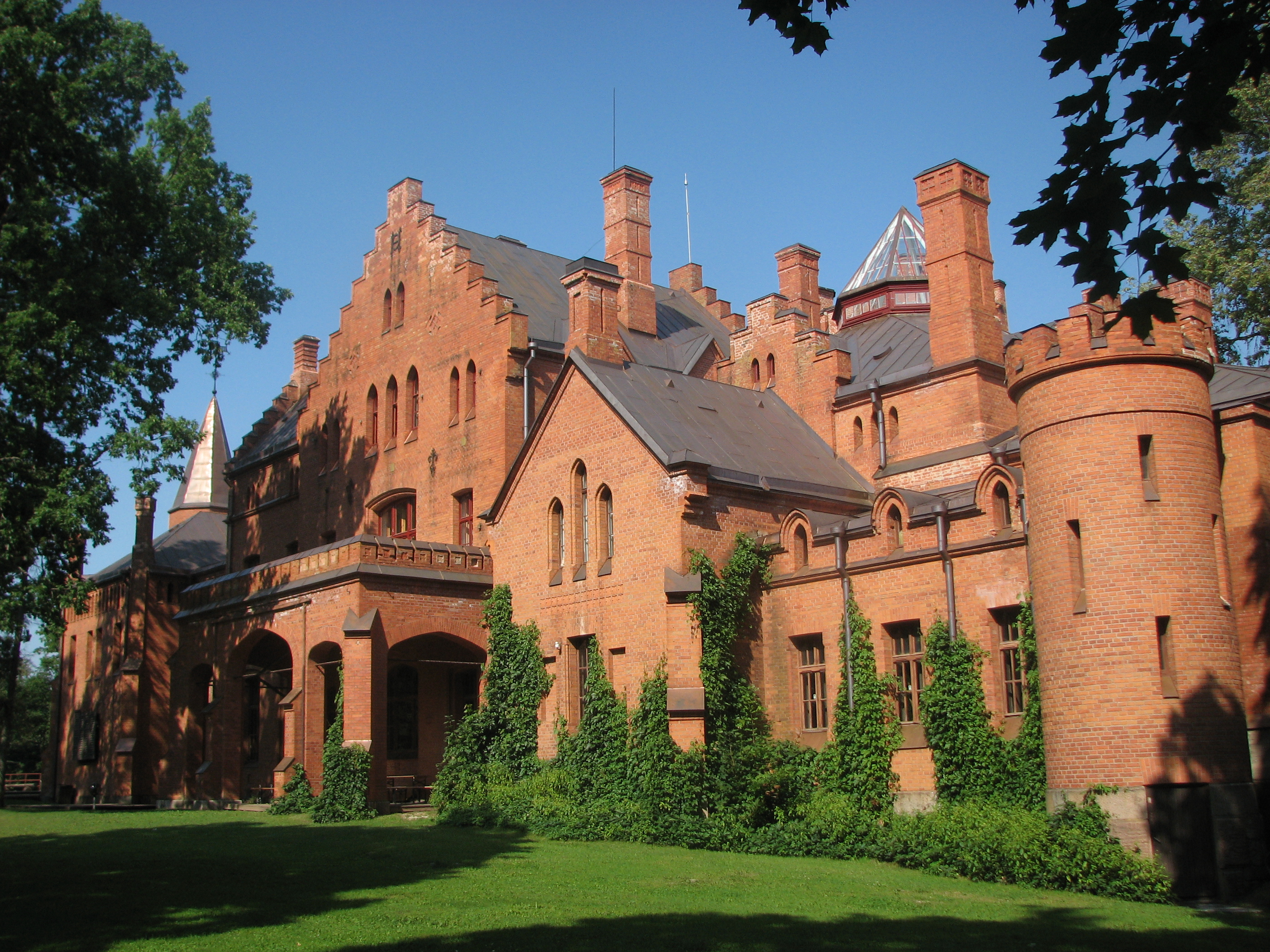 Castle in Sangaste, Estonia